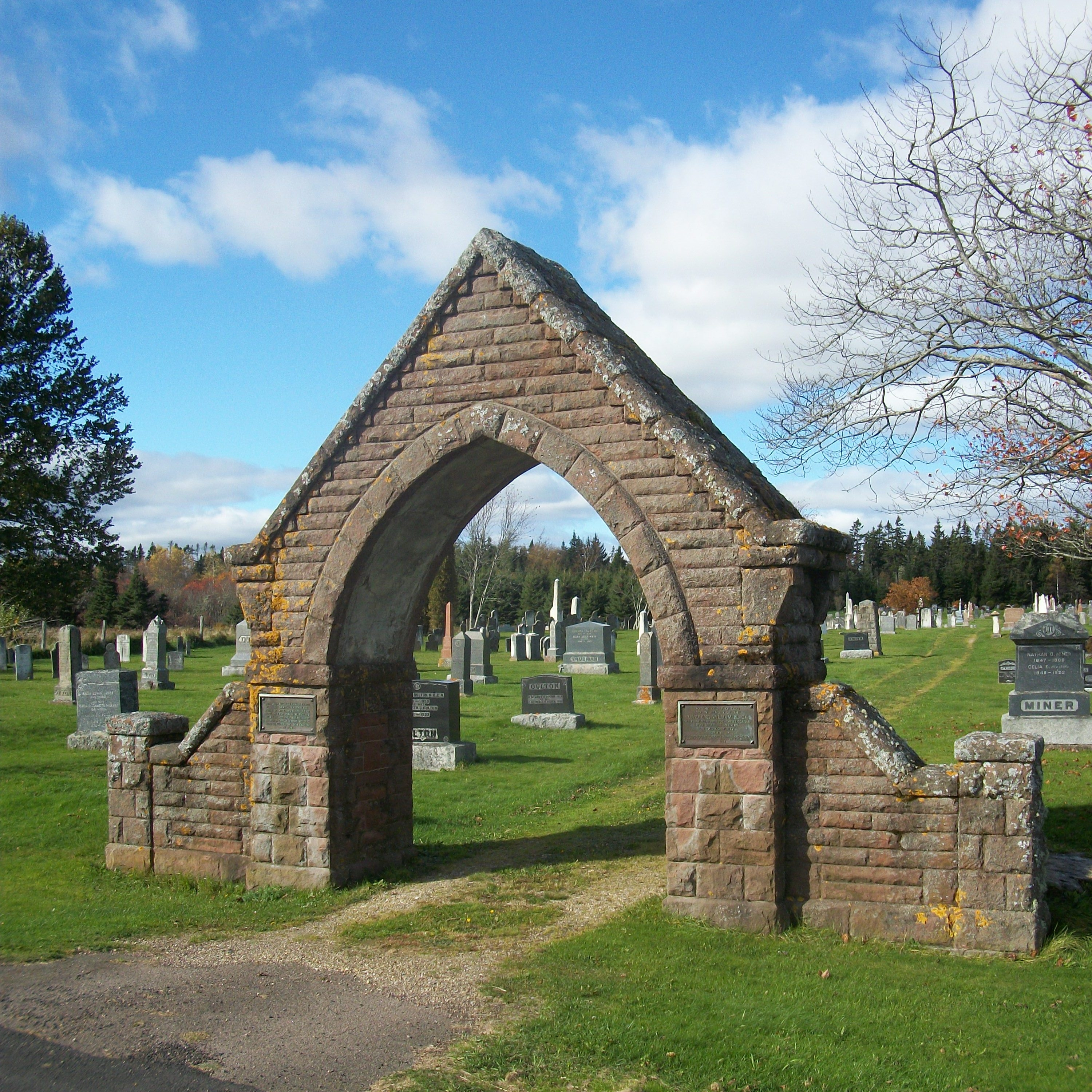 Cemetery lychgate in Point de Bute, Westmorland County, NB. A plaque on the gate states that it commemorates the life of William Black, first Methodist preacher in Canada. Another plaque indicates that the first Methodist church in Canada was erected nearby in 1788.